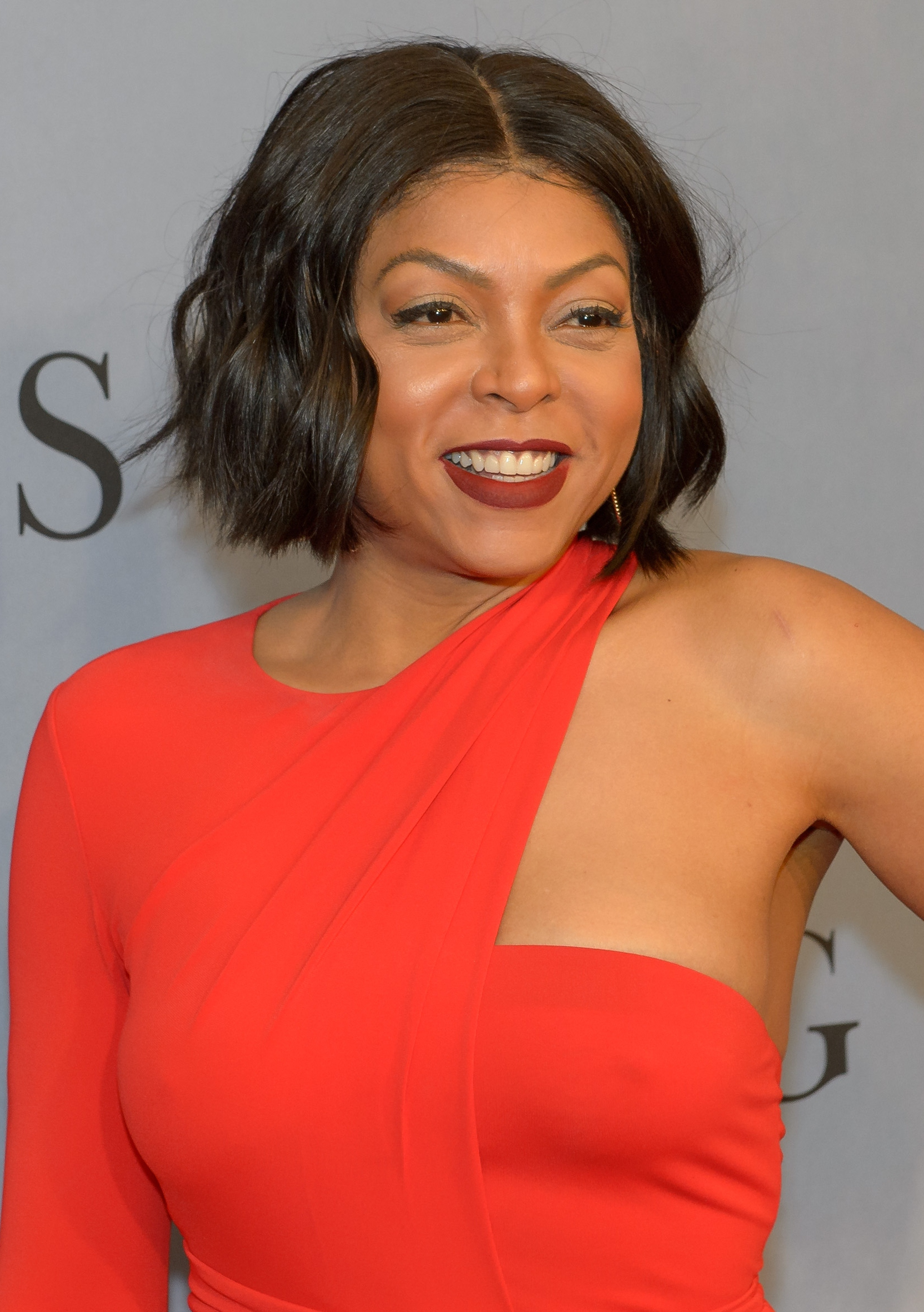 American actress and singer Taraji P. Henson arrives on the red carpet for the global celebration of the film "Hidden Figures" at the SVA Theatre, Saturday, Dec. 10, 2016 in New York. The film is based on the book of the same title, by Margot Lee Shetterly, and chronicles the lives of Katherine Johnson, Dorothy Vaughan and Mary Jackson -- African-American women working at NASA as “human computers,” who were critical to the success of John Glenn’s Friendship 7 mission in 1962. Photo Credit: (NASA/Bill Ingalls)